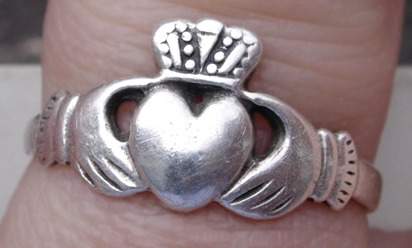 Ring of Claddagh.